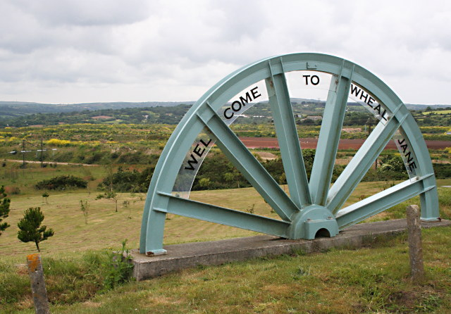 Welcome to Wheal Jane. This welcome sign wrapped around half of an old winding wheel is at the eastern entrance to the disused Wheal Jane site which now houses several companies in the mining, minerals, environment and engineering industries. Behind the sign, beyond the mown field is the level expanse of the tailings lagoons.